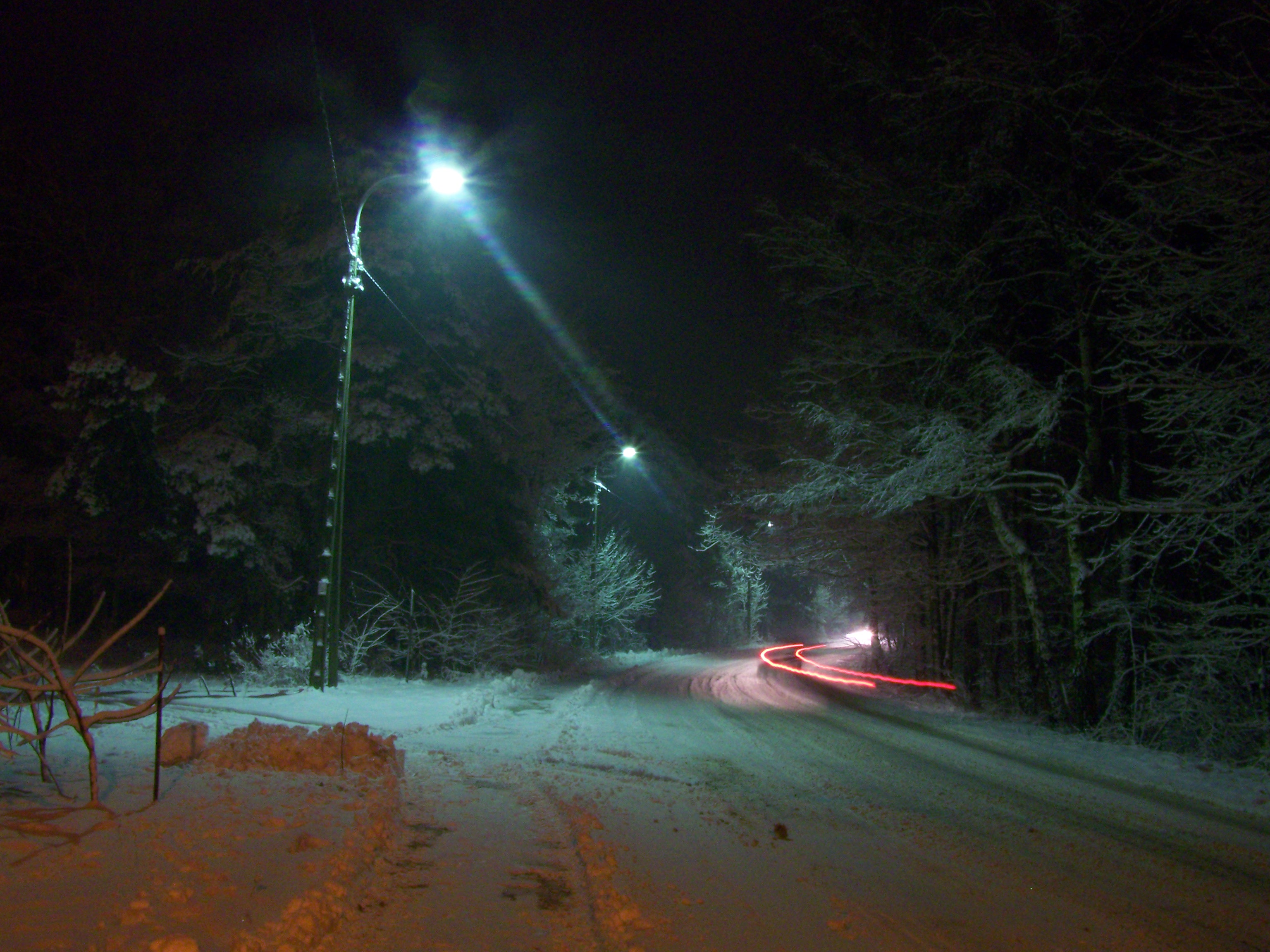 High pressure mercury-vapor lamps.